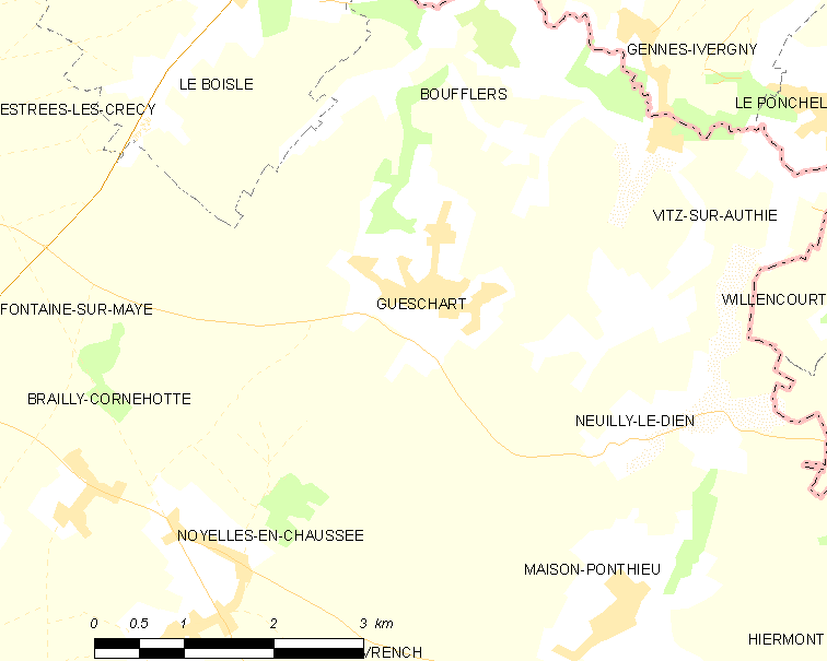 Map of French municipality Gueschart